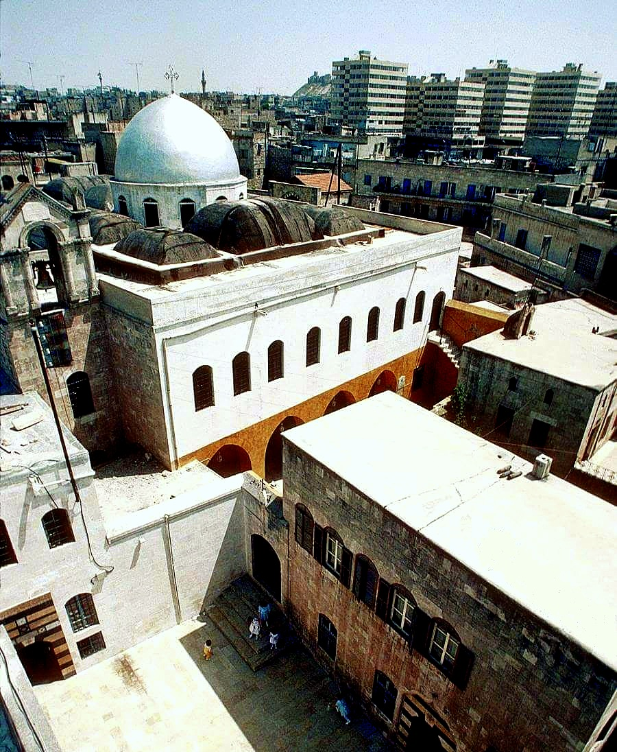 Cathedral of Our Mother of Reliefs, Aleppo, Syria.